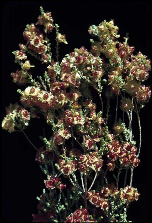 Verticordia dichroma